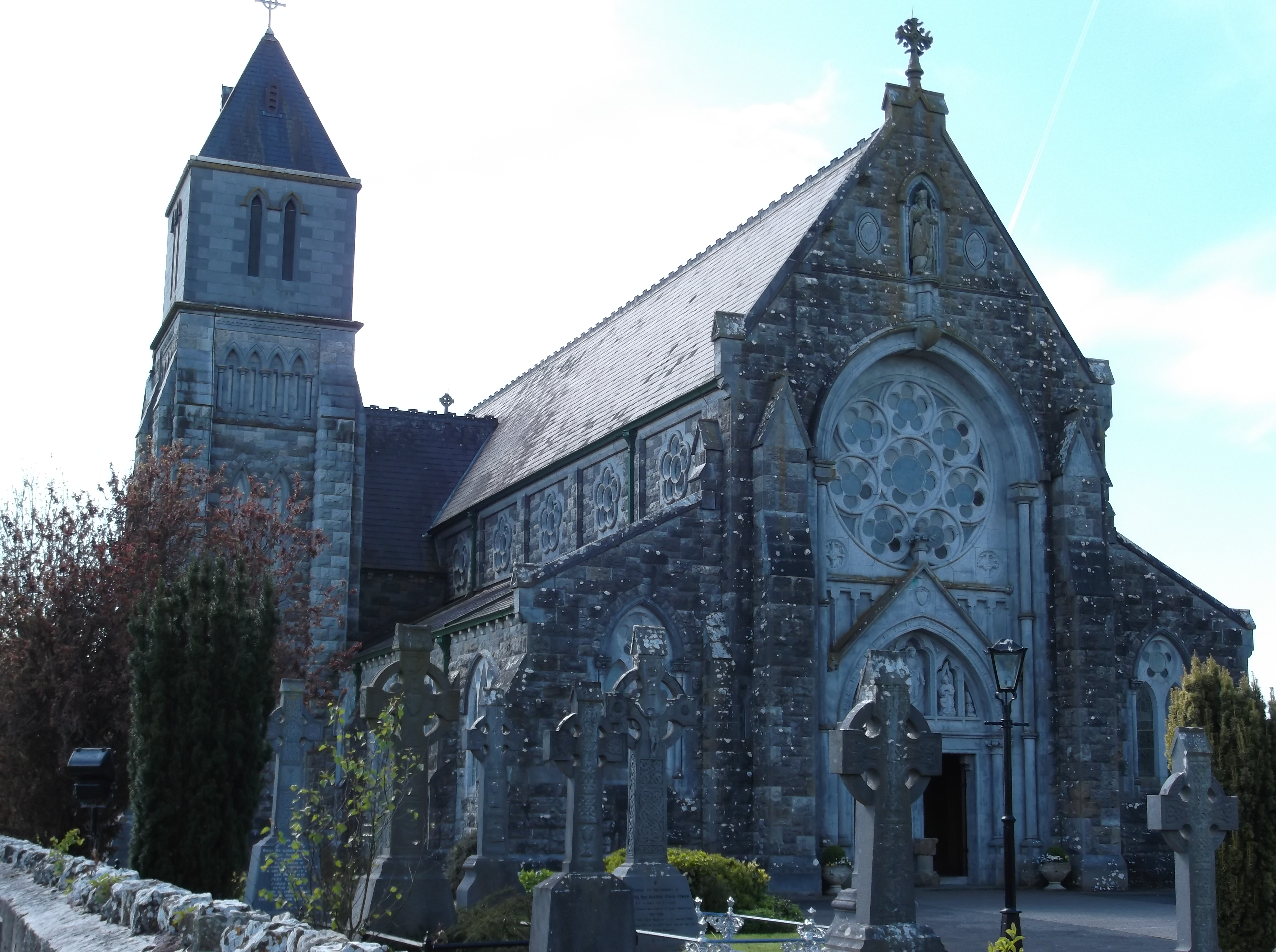 Photograph of the Church of St Ailbe, Emly, Co. Tipperary, on the site of an earlier cathedral and monastery